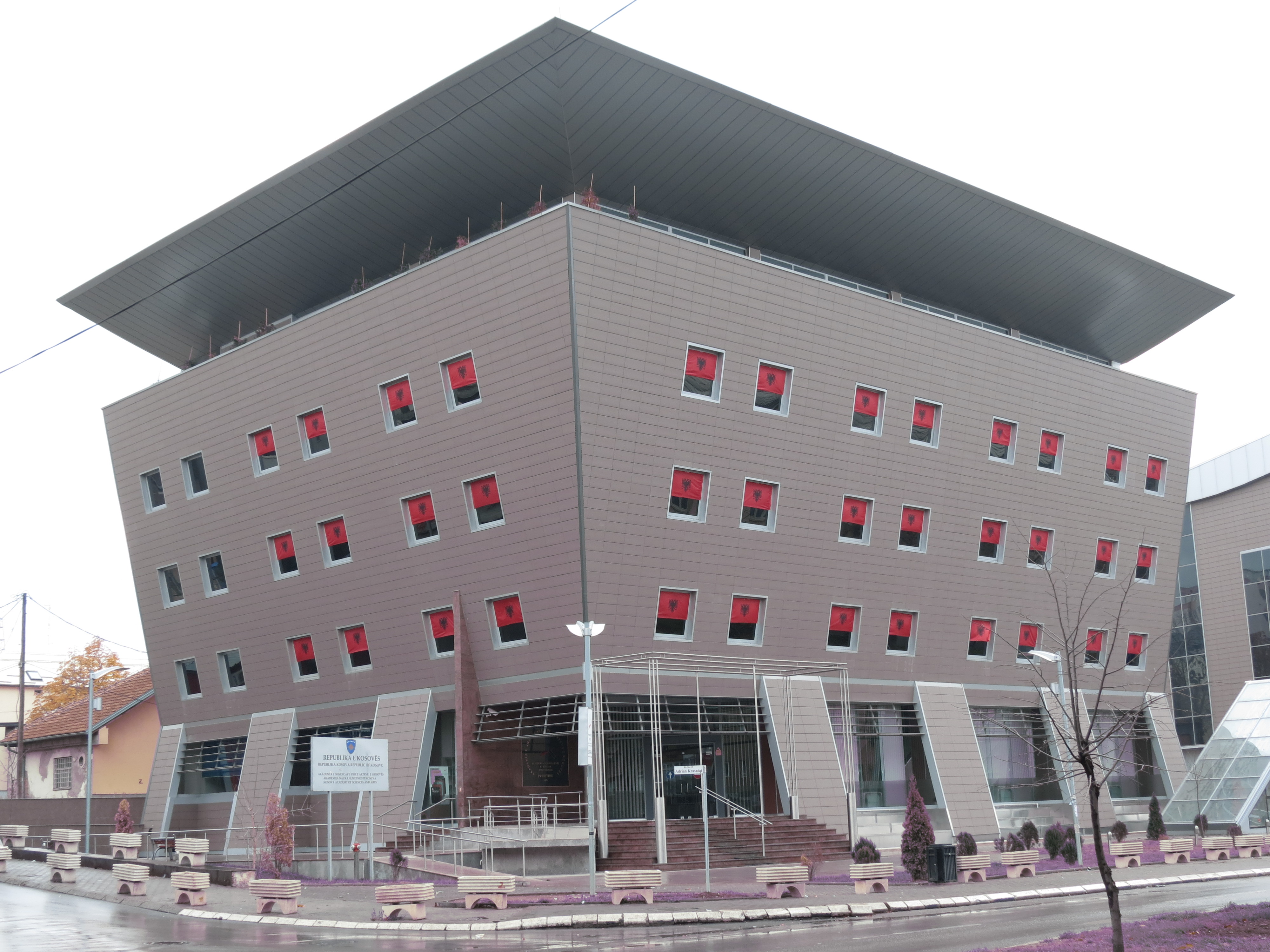 Academy of Sciences and Arts of Kosovo (Akademia e Shkencave dhe e Arteve e Kosovës) in Prishtina decorated with Albanian flags for the 100 year anniversary of the Albanian declaration of independence (28 of November 2012).